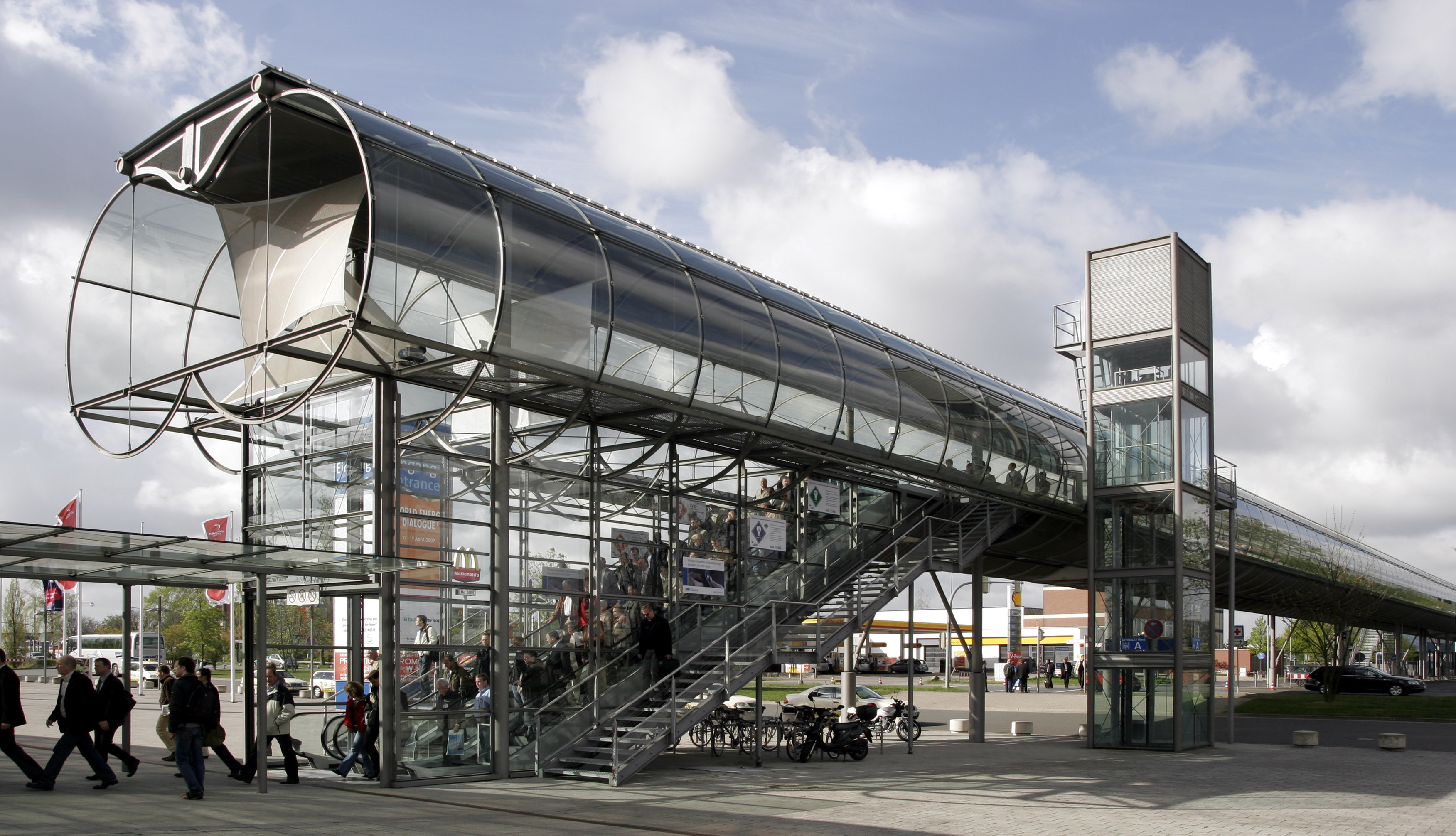 Skyway at the Hannover Fair (Germany) on April 18th, 2007